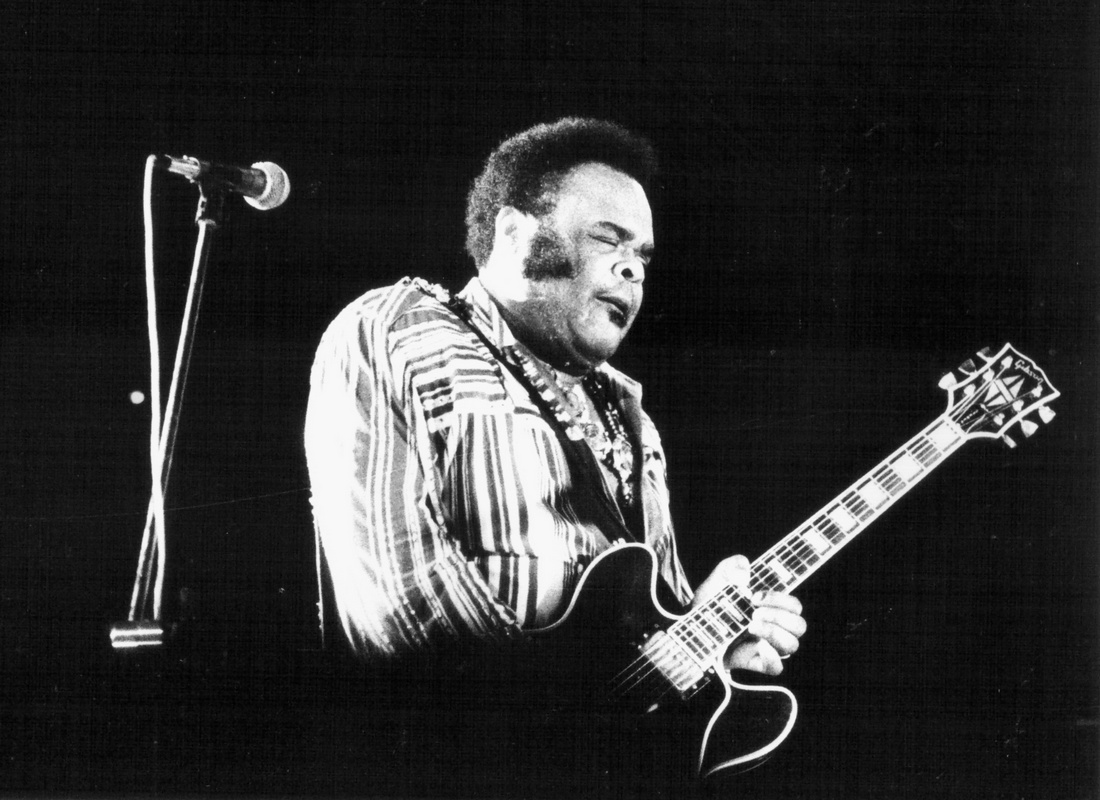 Blues guitarist Freddie King in Paris, France.